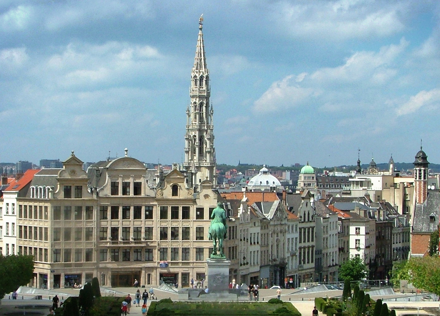 Brussels, view from the Kunstberg hill